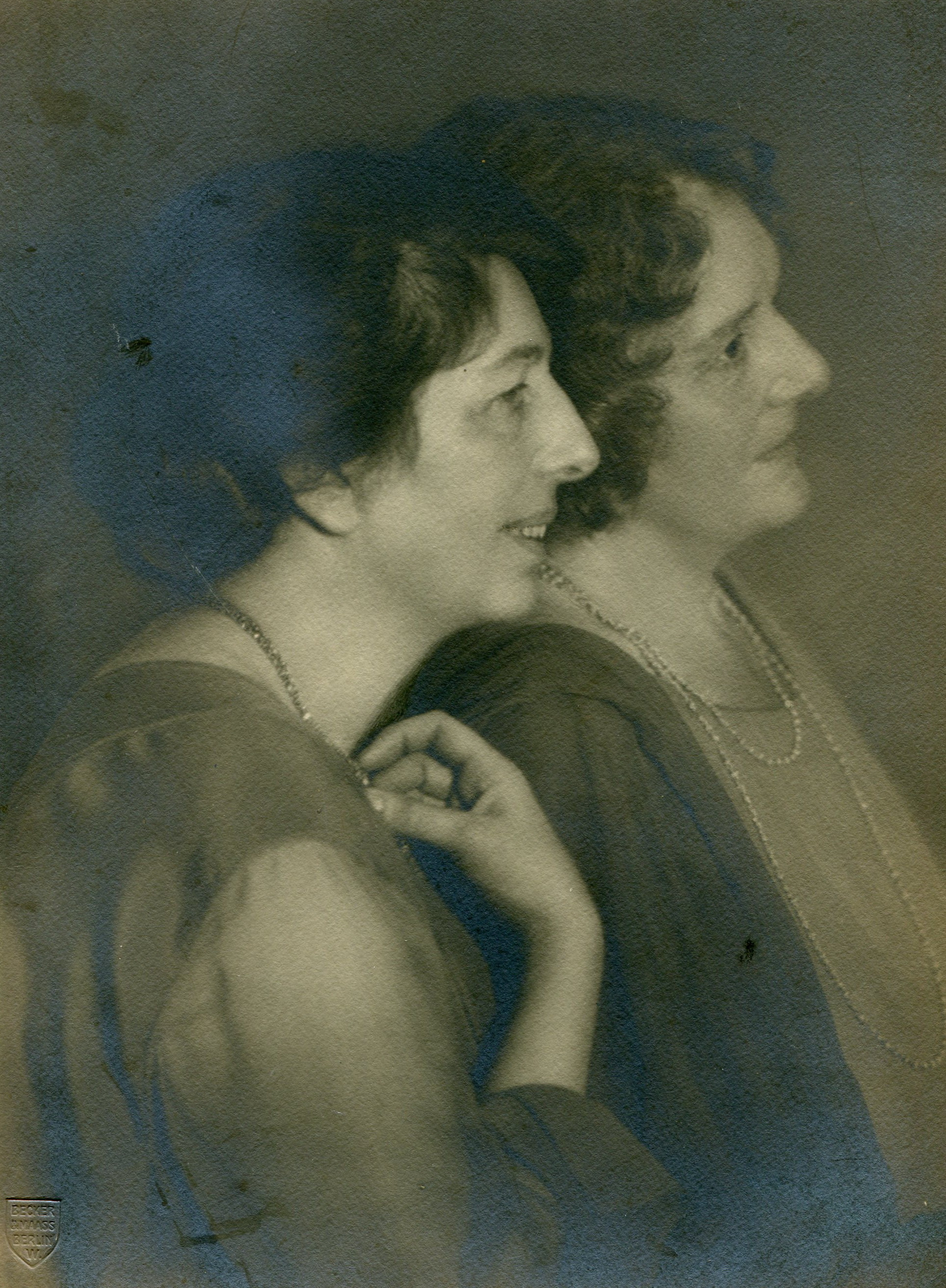 Gertrud and Margarete Zuelzer (um 1920)